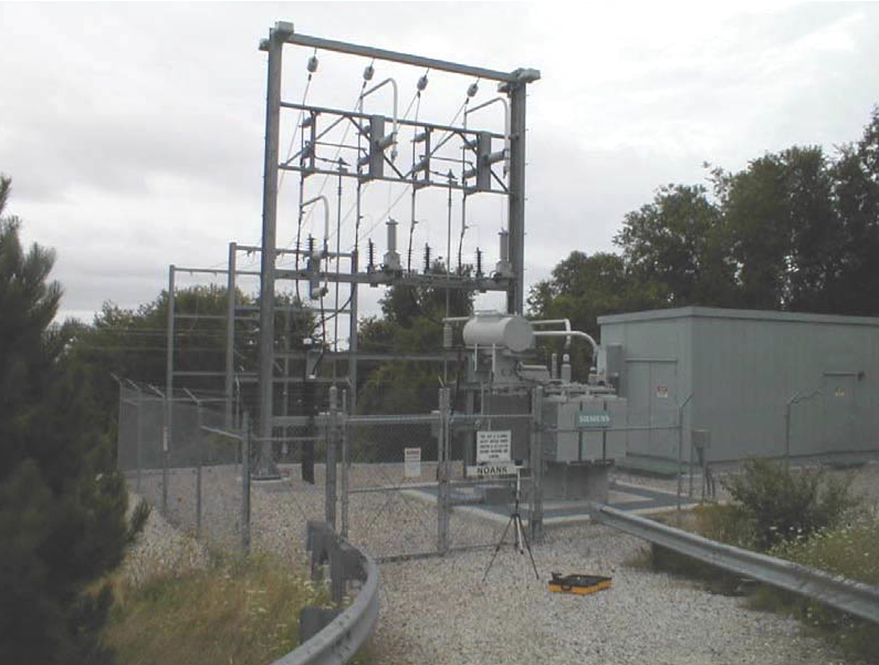 Noank Paralleling Station. EMF, p. 123. Mcg410 (talk) 01:47, 27 December 2010 (UTC)